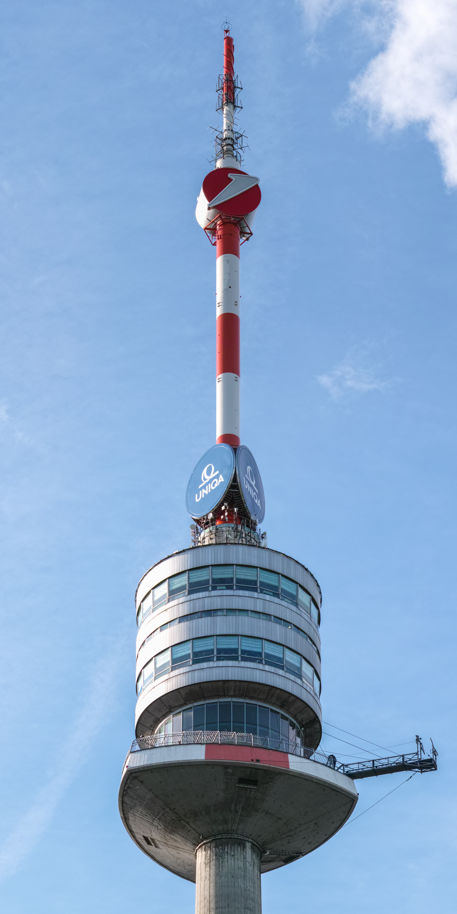 The top of the Donauturm in Vienna, Austria seen from the south on June 14, 2013.